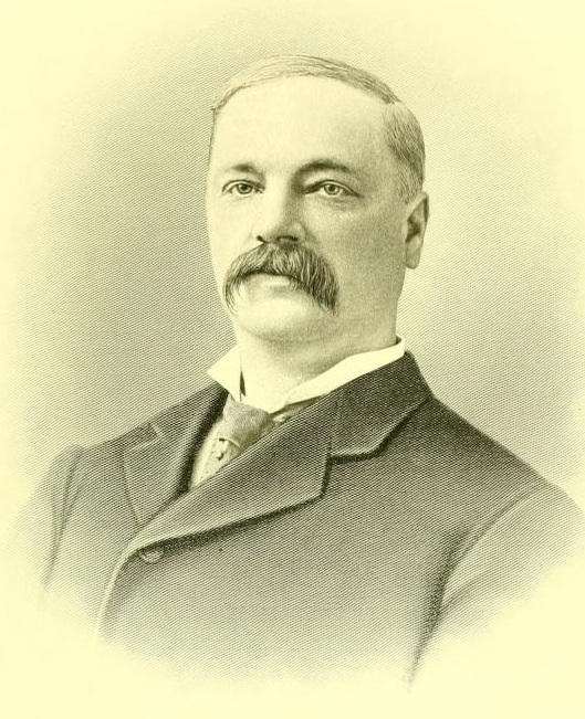 John Q. Underhill, New York Congressman.